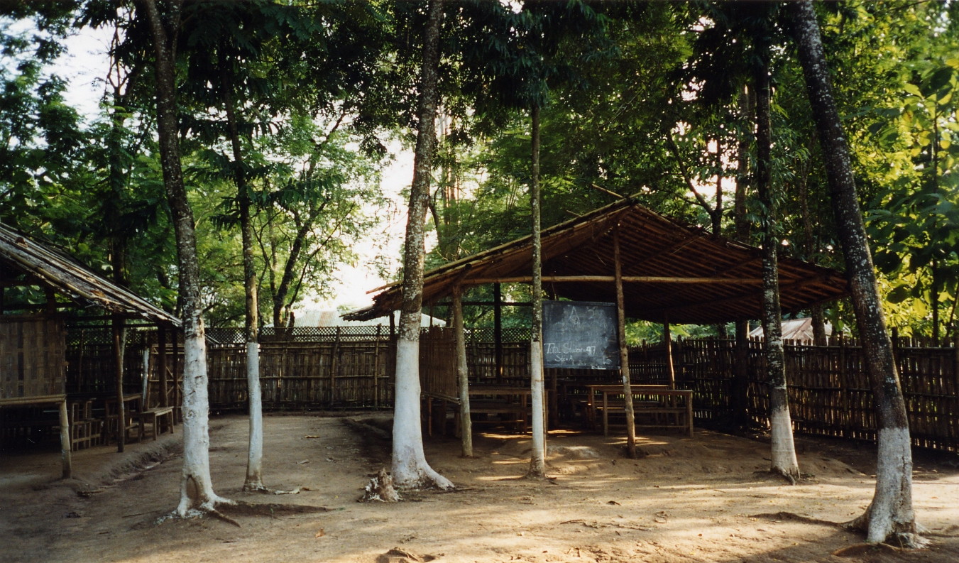 Photo: Soman